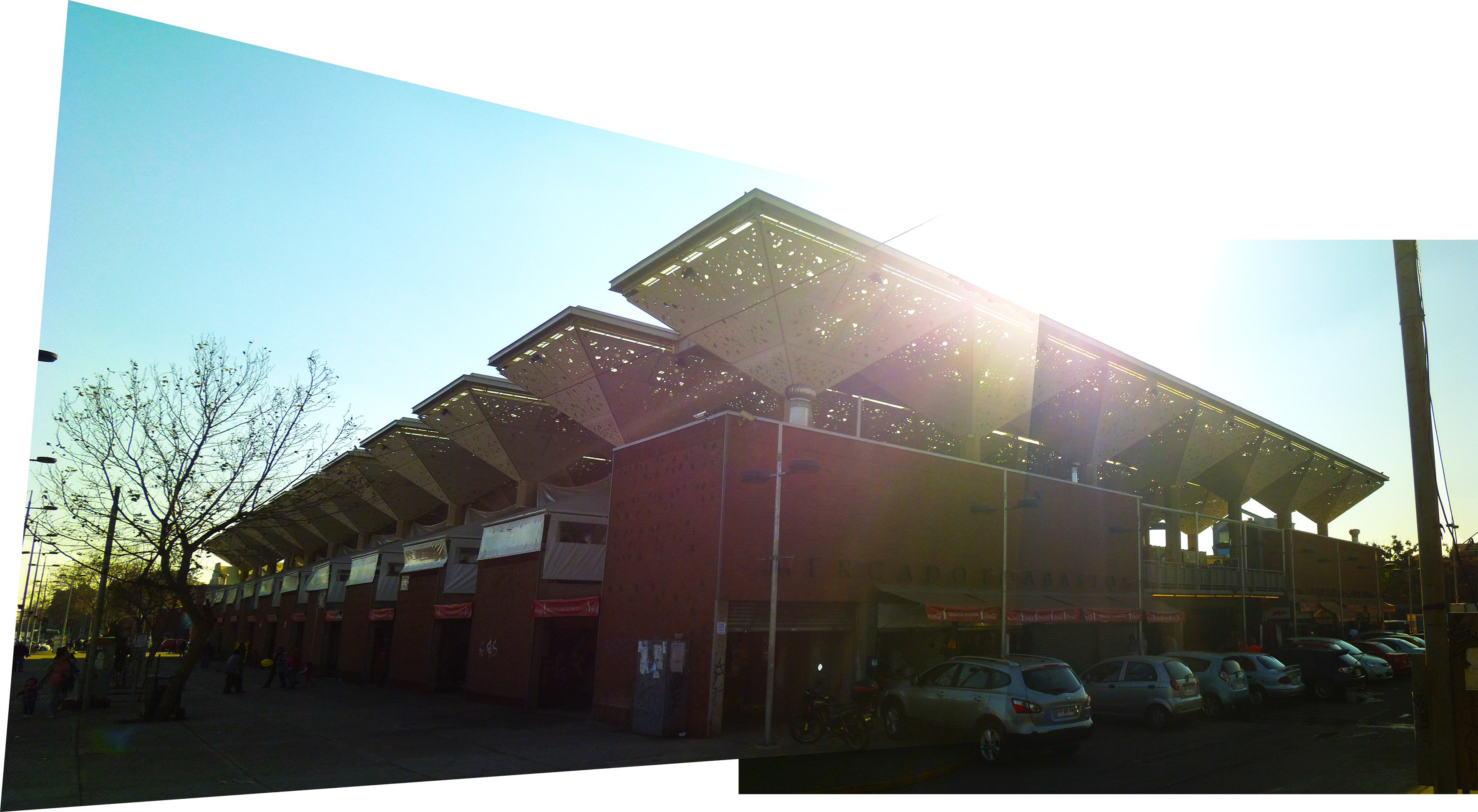 Panoramic view of Tirso De Molina Market in Recoleta, Santiago, Chile.